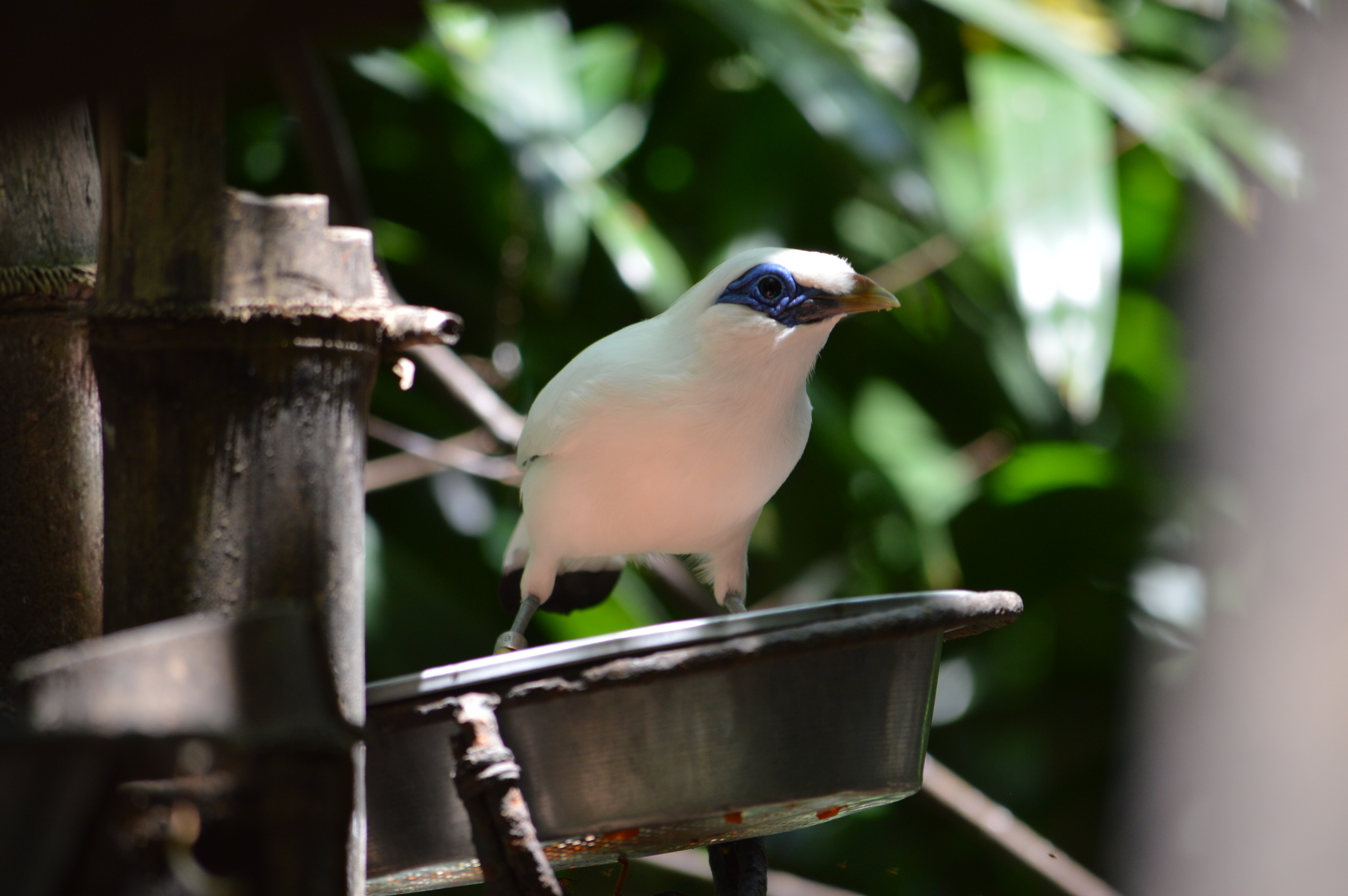 A Bali Starling or Rothschild Mynah at the Waddesdon Aviary